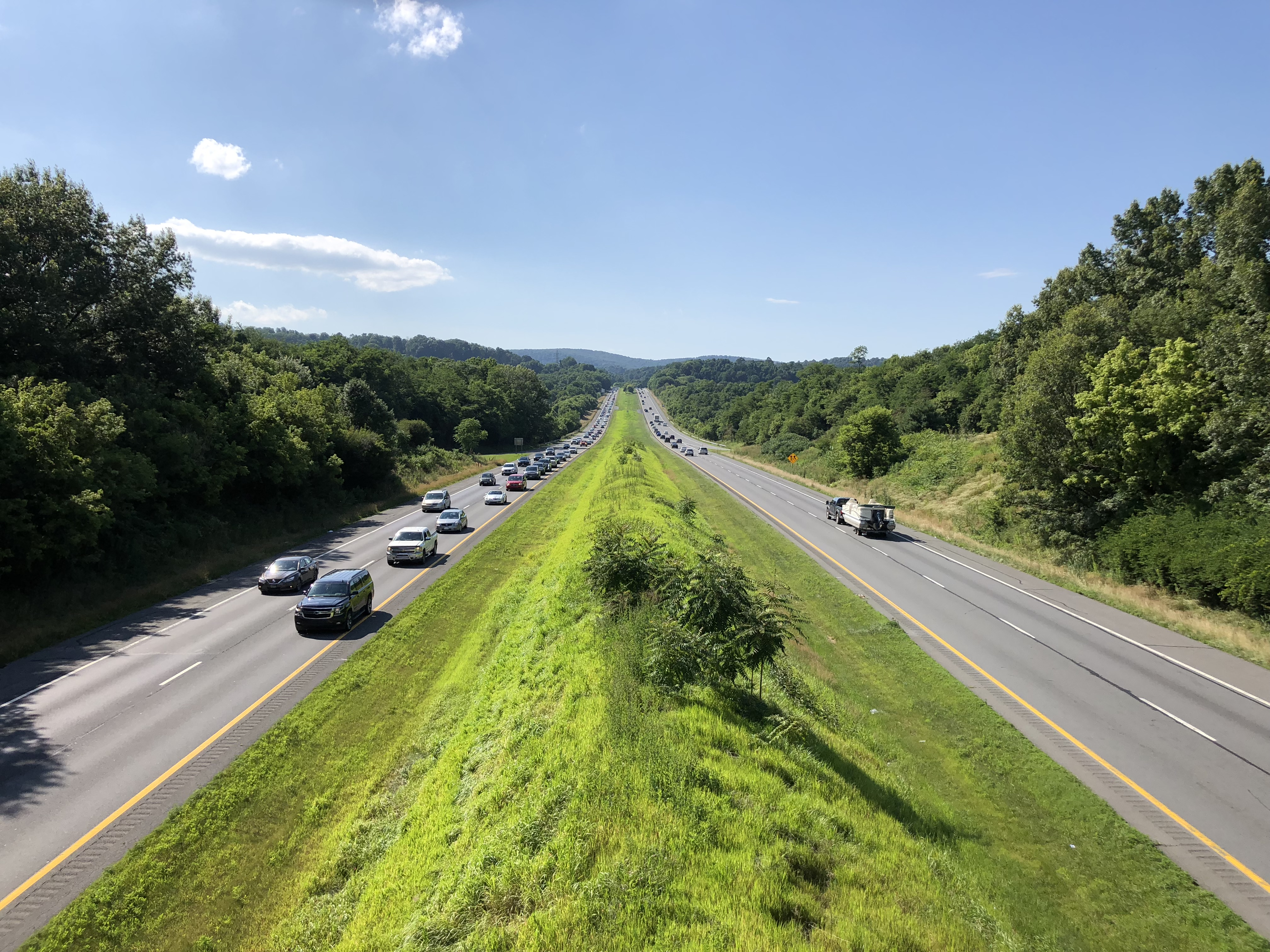 View west along Interstate 70 from the overpass for Maryland State Route 17 (Myersville Middletown Road) in Myersville, Frederick County, Maryland